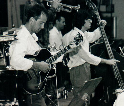 Performing at Jazz Festival in Sassari